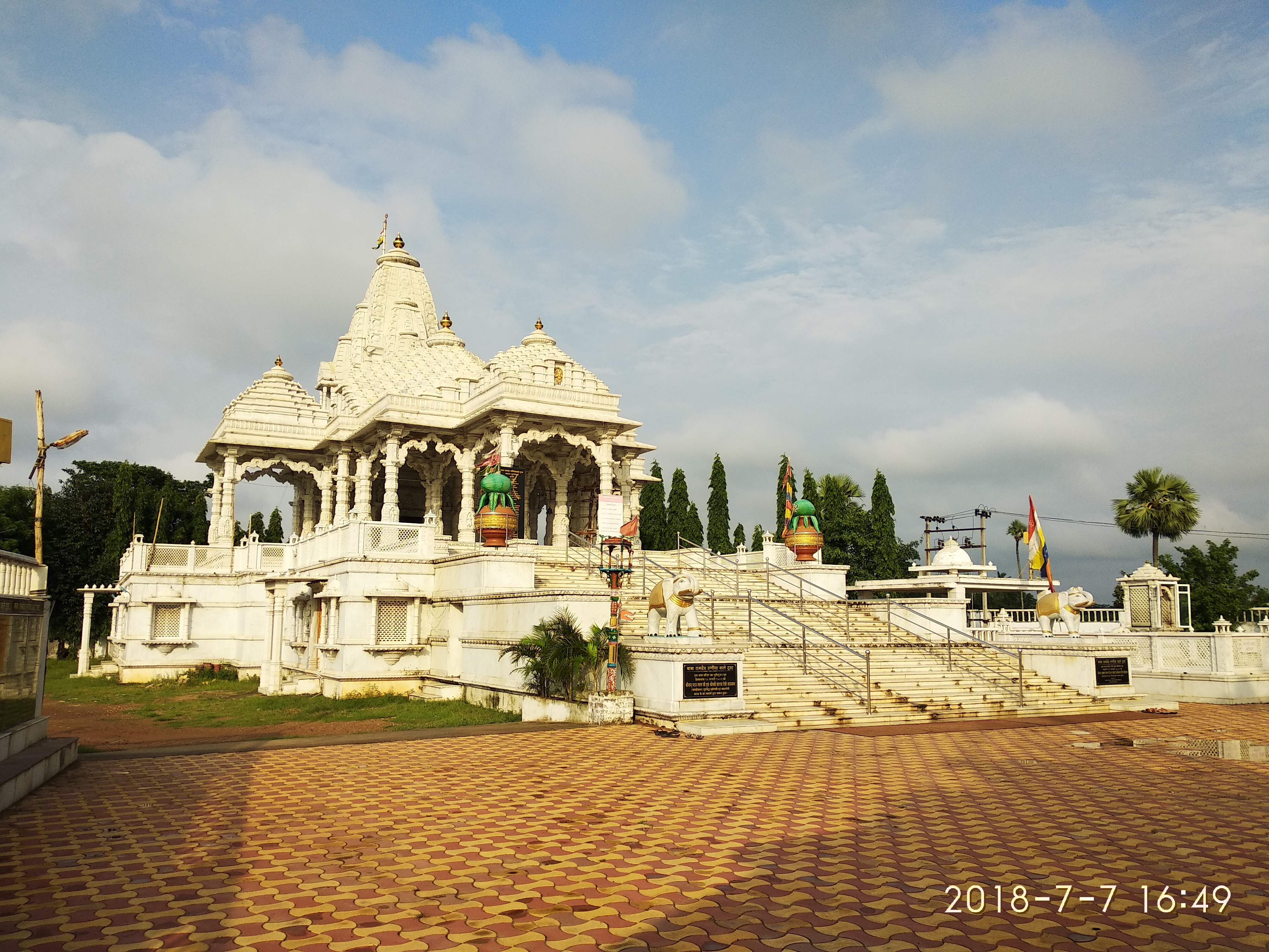 Between on Bhubaneswar & cuttack. Beautiful temple. One of the biggest Ramapir Temple.